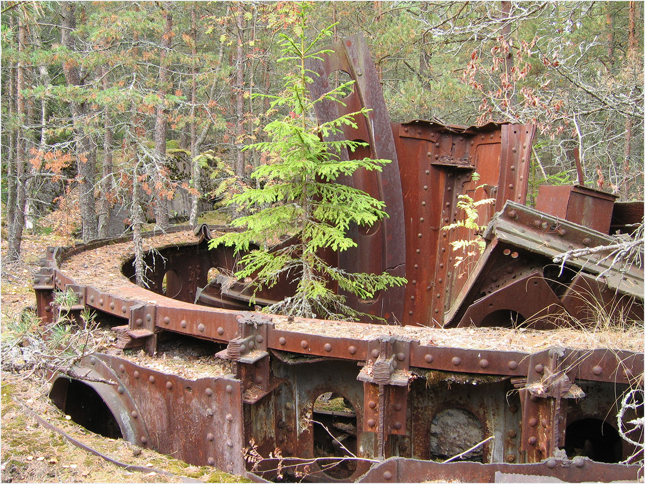 The heavy Battery of Naissaar no. 9